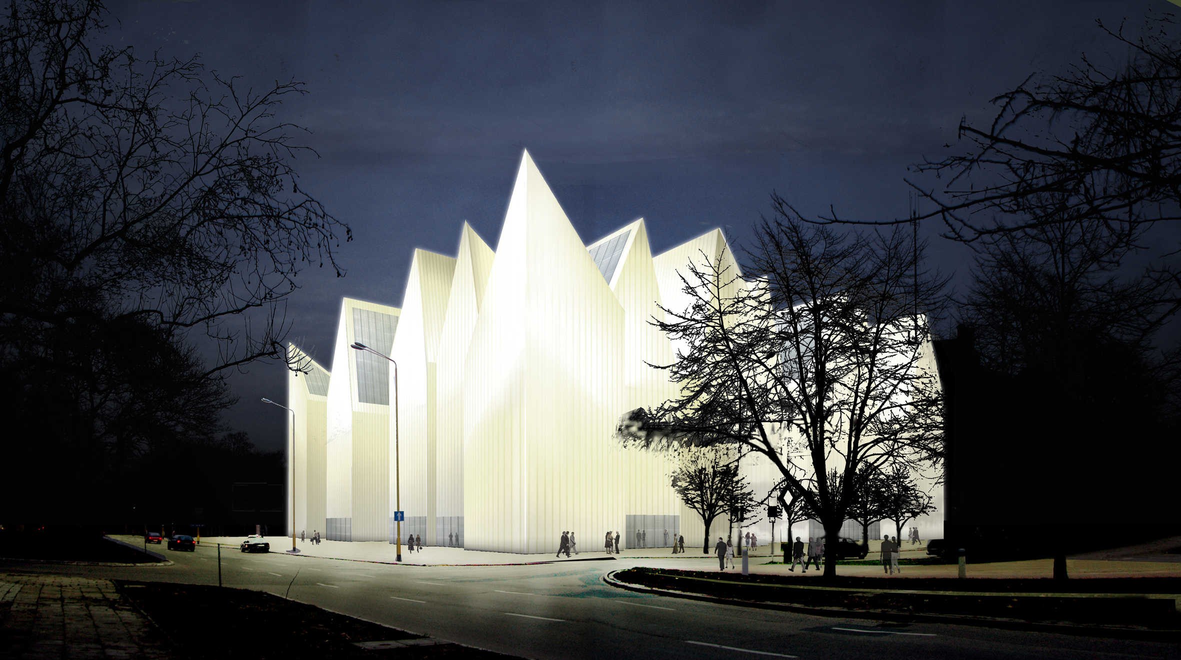 Model of the Szczecin Philharmony by night